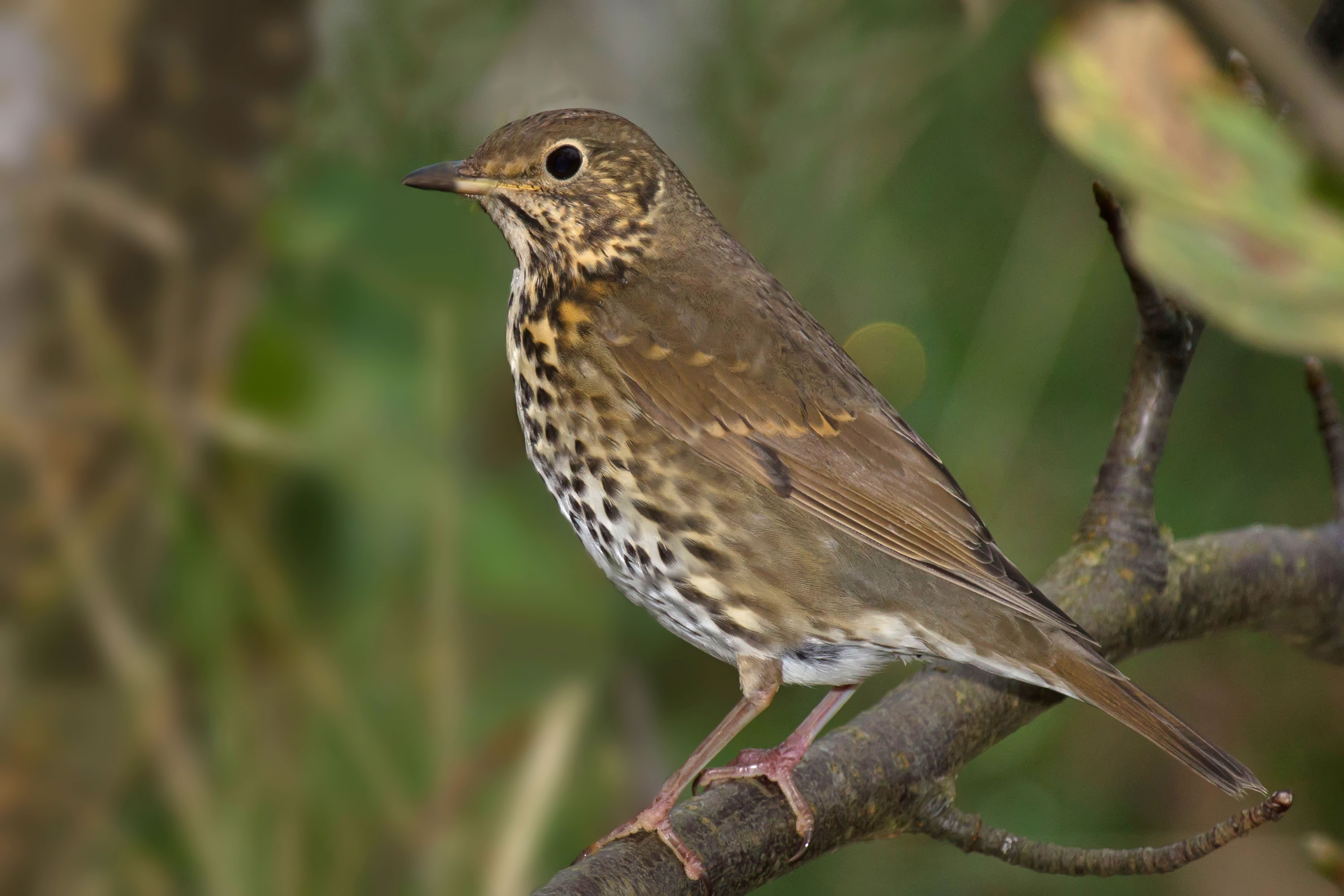 Song Thrush